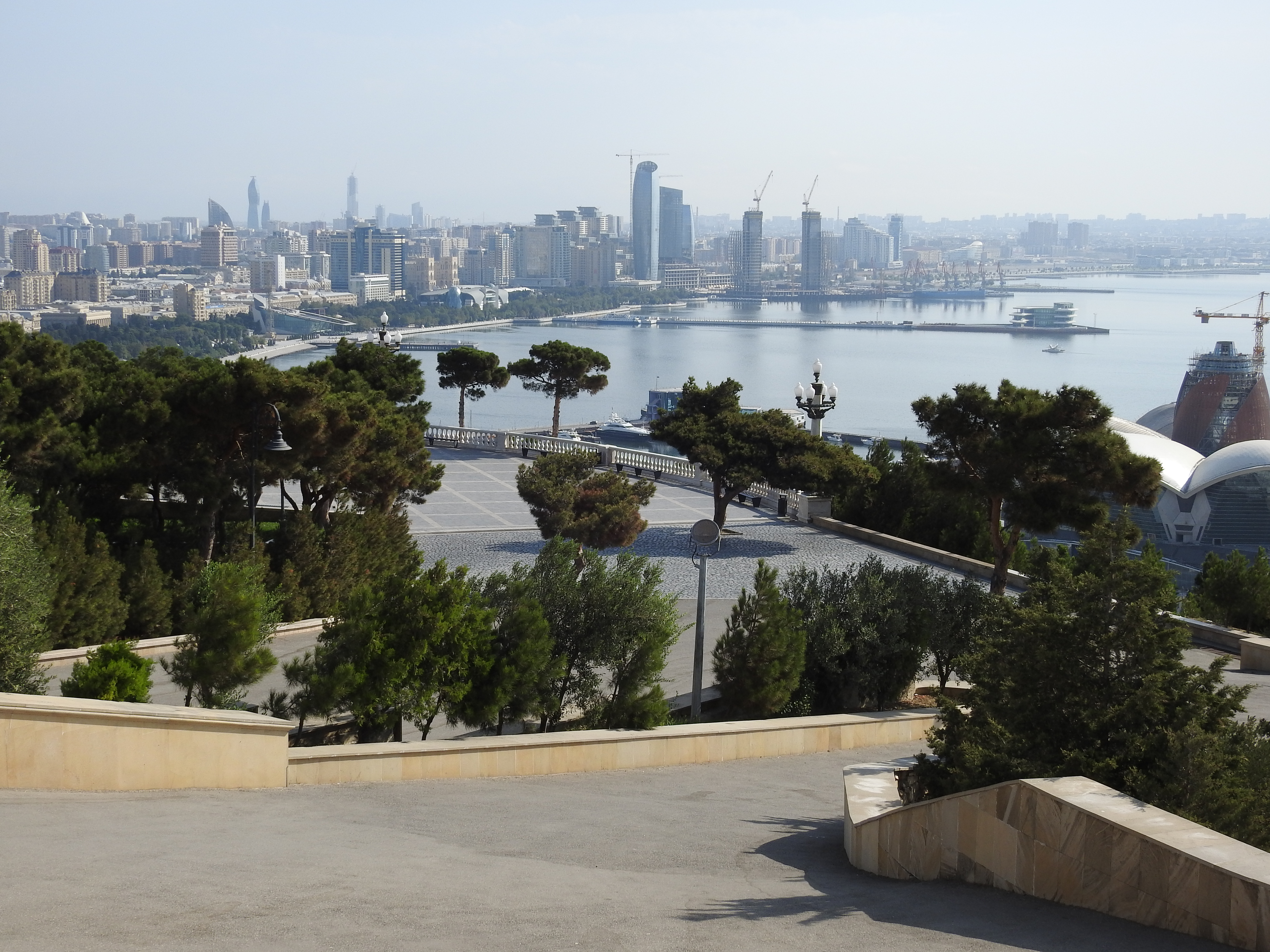 This is the exit from the Martyrs' Lane in Baku, Azerbaijan, but alternatively, you can even enter from this end, as a British couple with their guide had done, as we were walking out. This picturesque scene shows the Bay of Baku and the Caspian Sea. The modern Baku skyline can be seen in the distance, though mercifully, there are very few of those monstrous skyscrapers unlike most other large cities nowadays. (Baku, Azerbaijan, Sept. 2017)